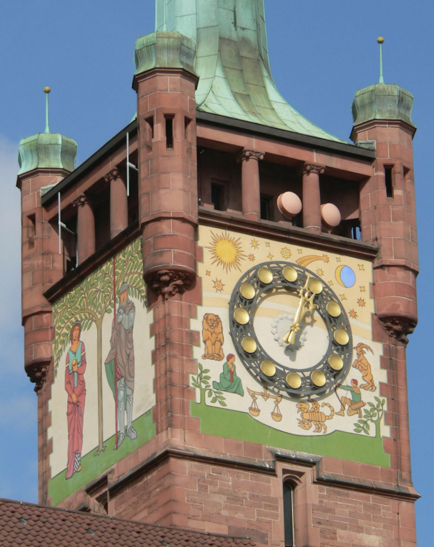 Clock on the tower Bezirksamtsturm in Pforzheim, Germany